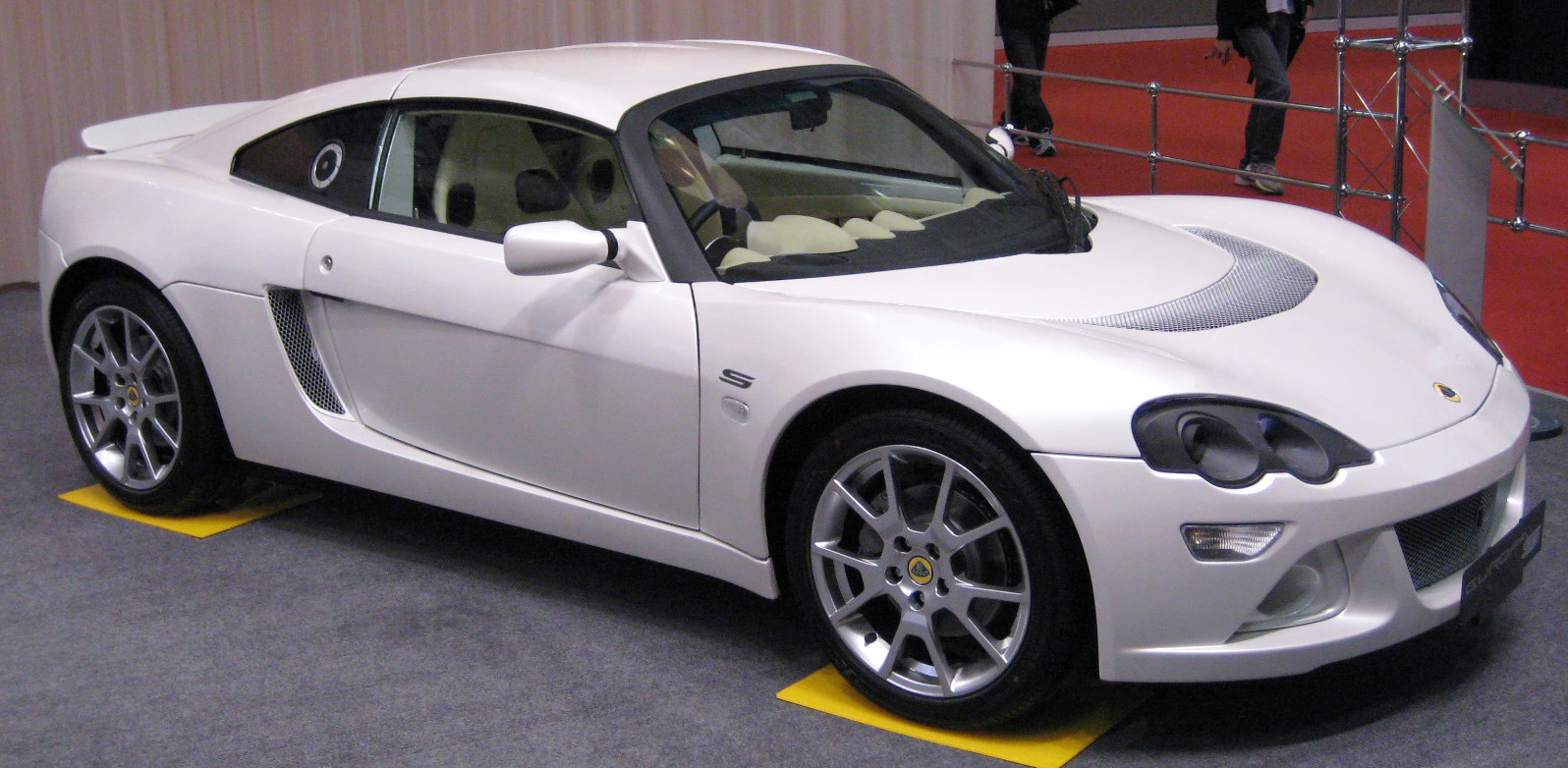 Lotus Europa S photographed in Tokyo Motor Show 2007